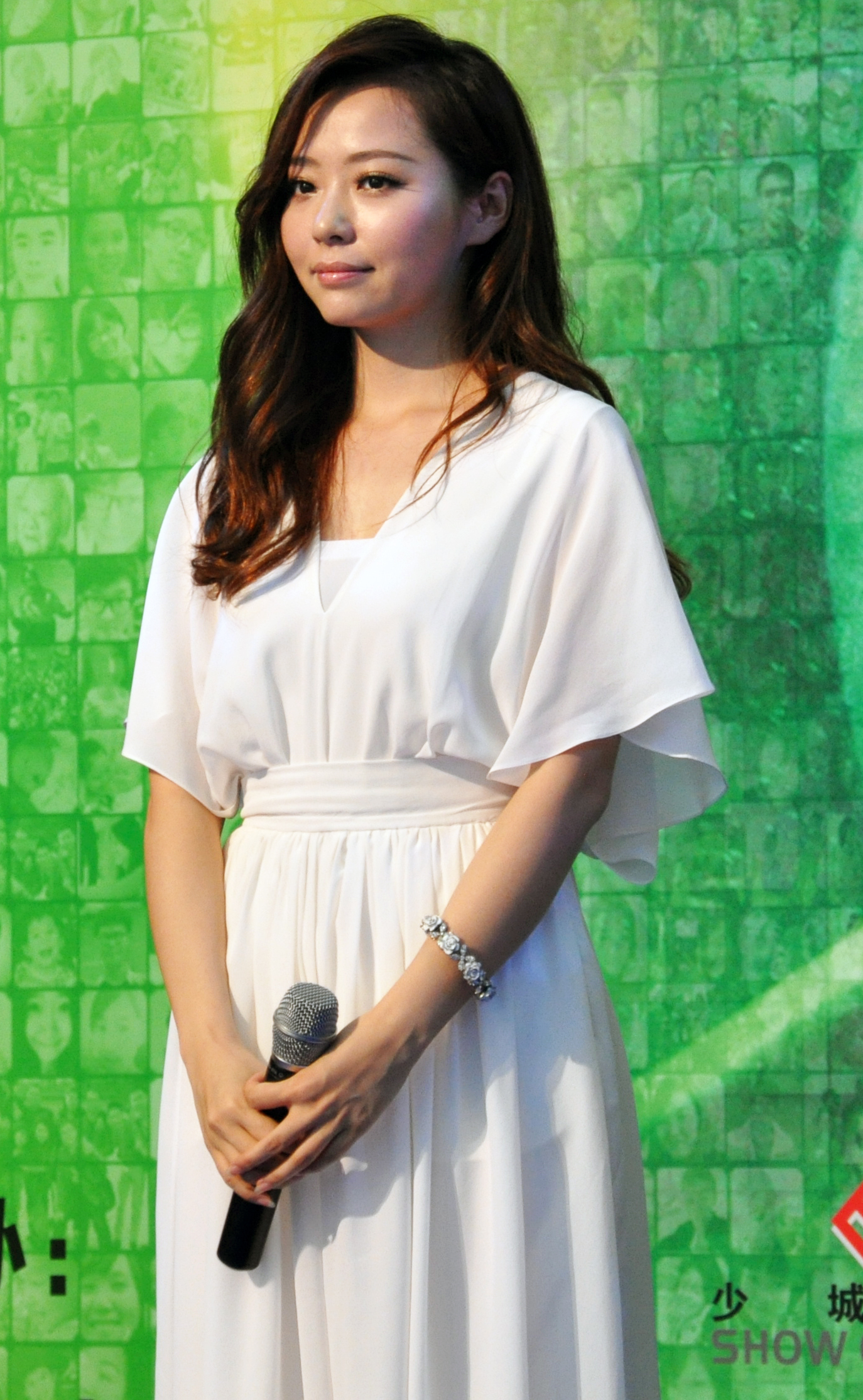 A photo of Jane Zhang taken by Sherriff